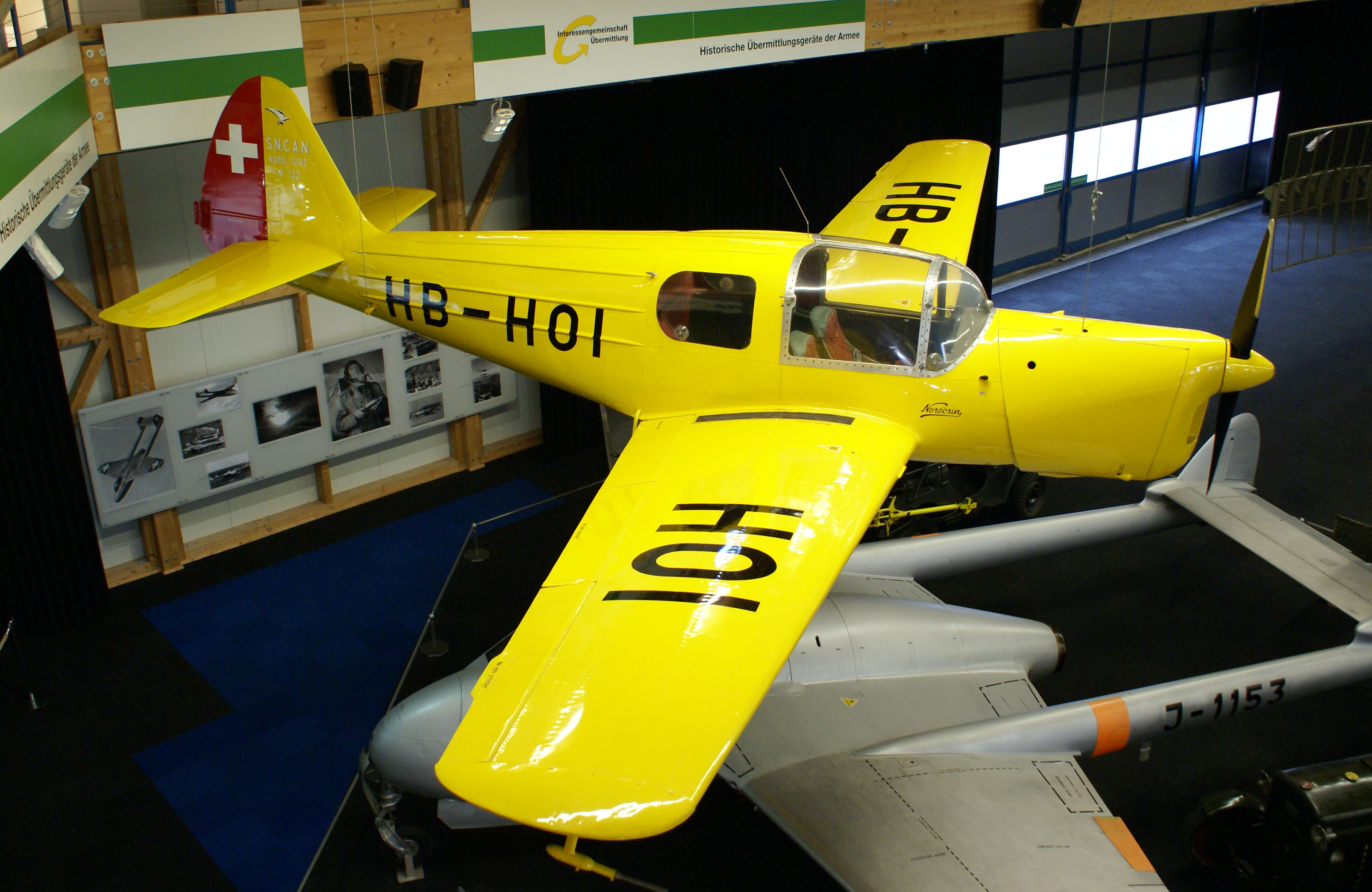 Nord Aviation 1203 "Norécrin" light trainer, in Swiss Air Force use from 1948 to 1954.